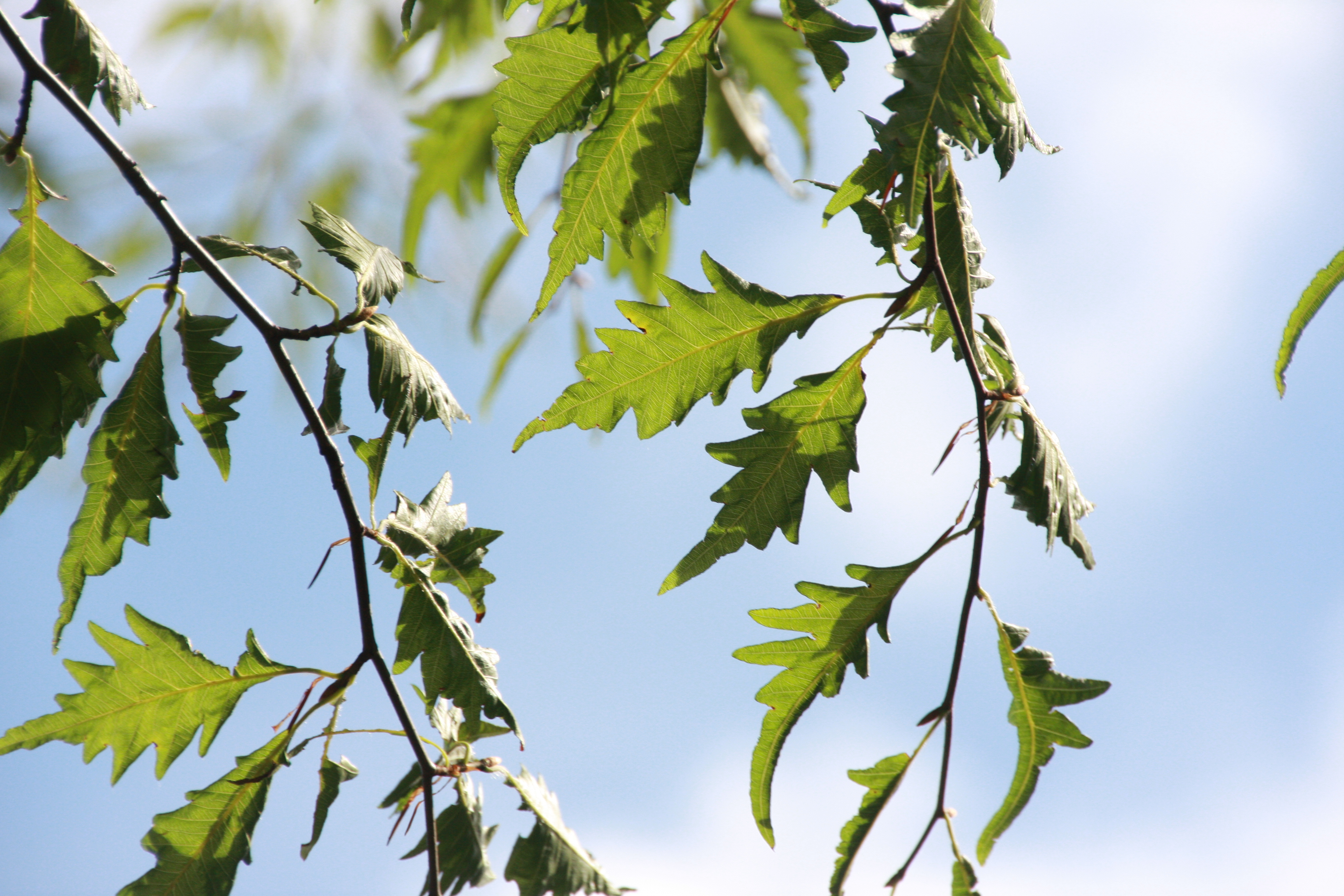 A close view of the leaves of a "Fagus sylvatica Asplenifolia" tree in summer days. This particular type of Fagus Sylvatica is famous for the unique shape of its leaves that distinguish its subspecie name with the latin adjective 'Asplenifolia'. The picture was taken to a tree of the Belfast Botanic Gardens on the 21st of August 2015.